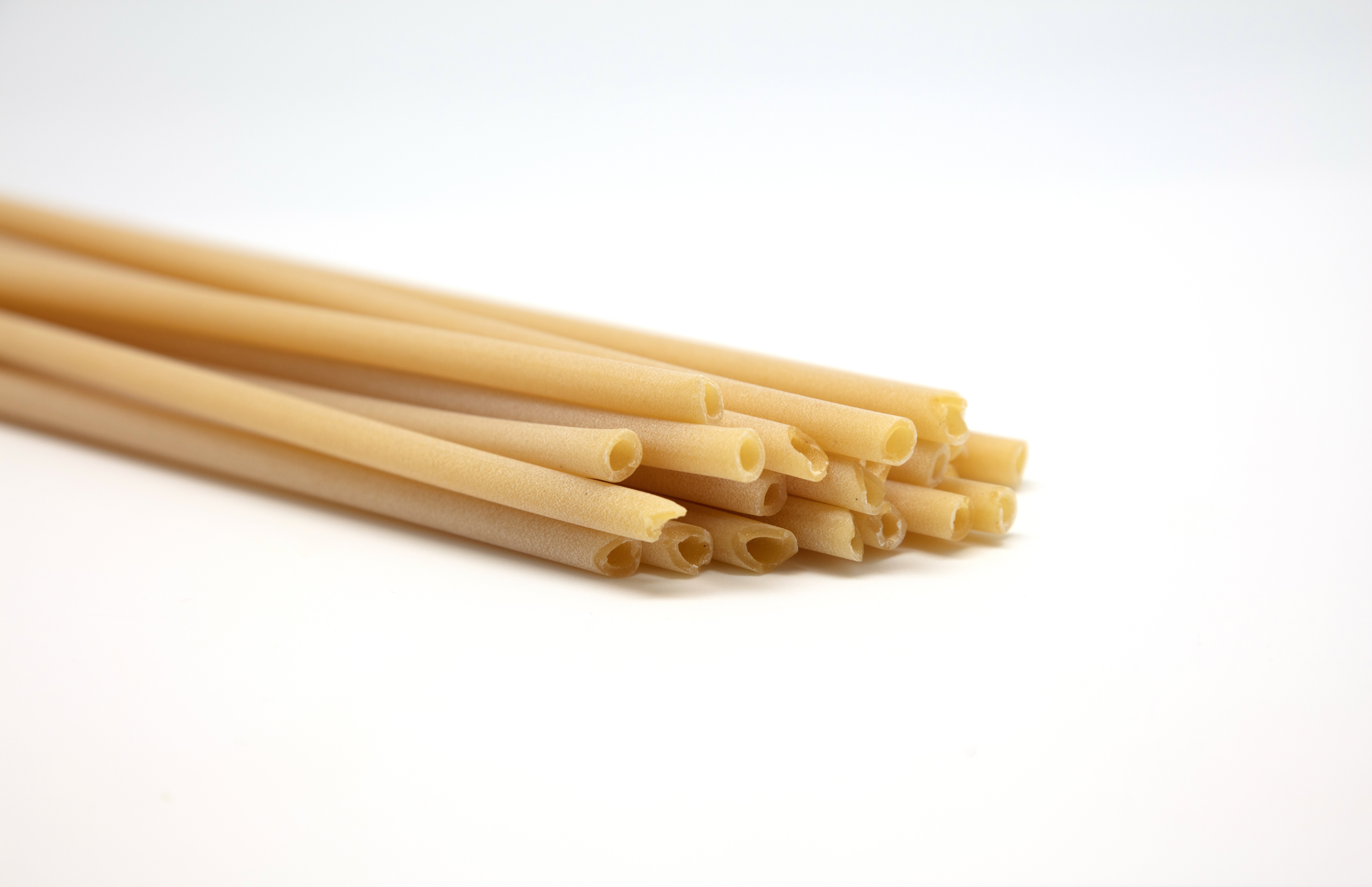 Zitti are long, hollow, extruded pasta (brand: Granoro).